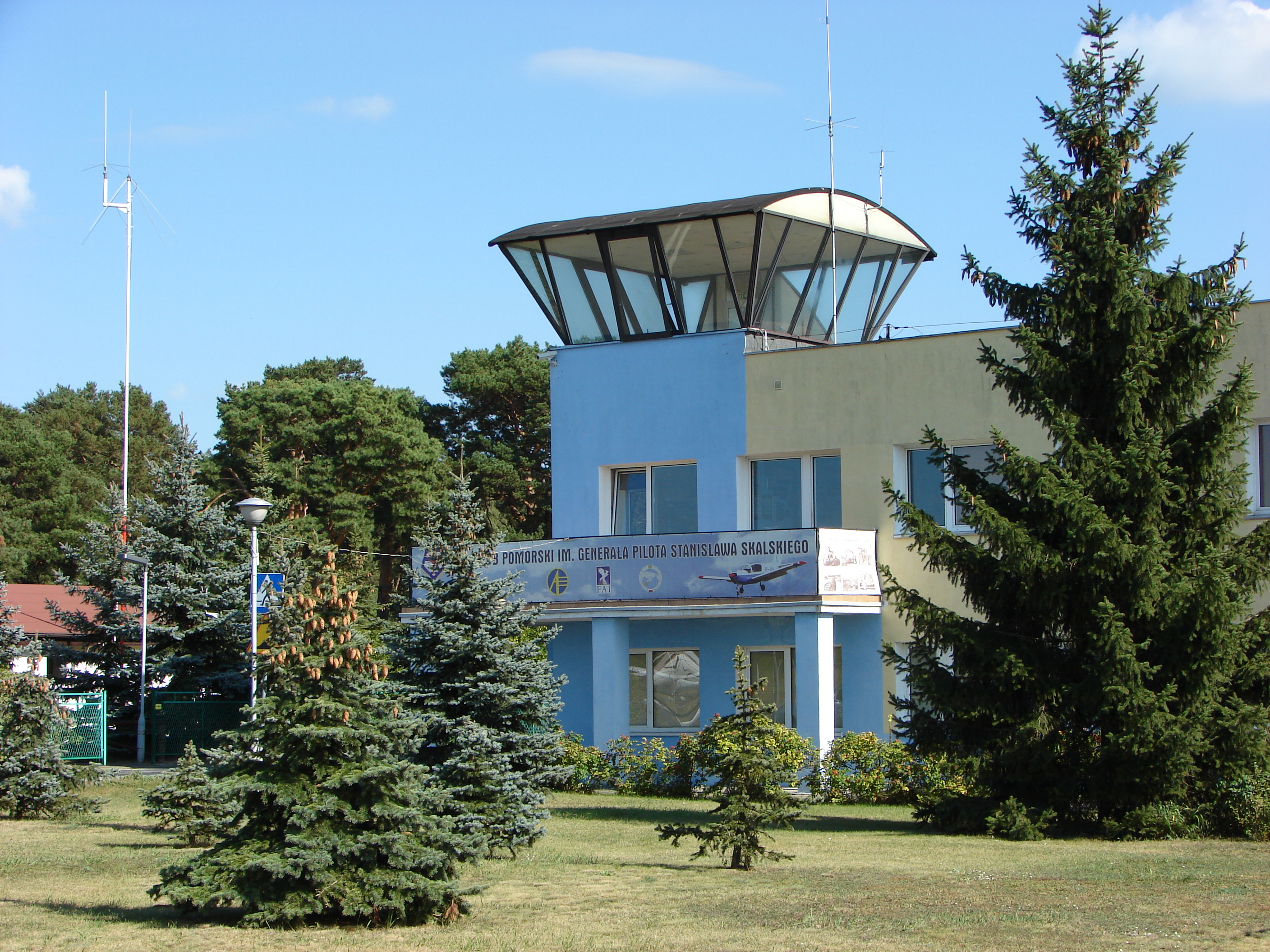 Toruń Airport. Traffic control tower.